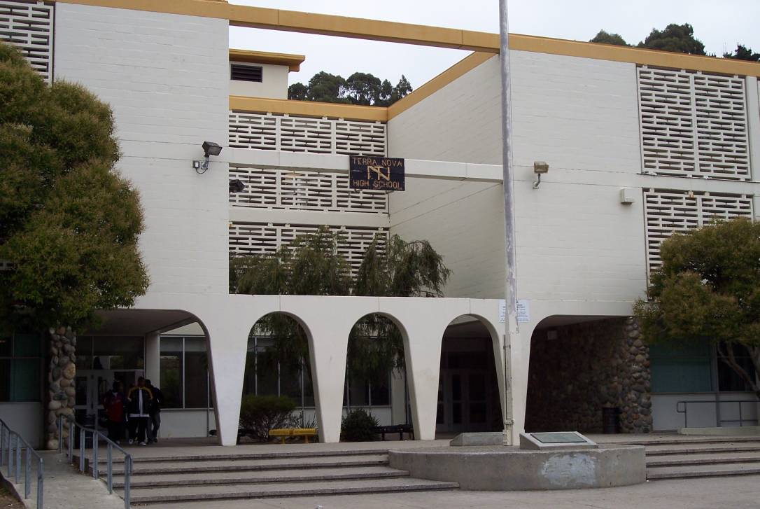 Terra Nova High School, Pacifica, California - front entrance